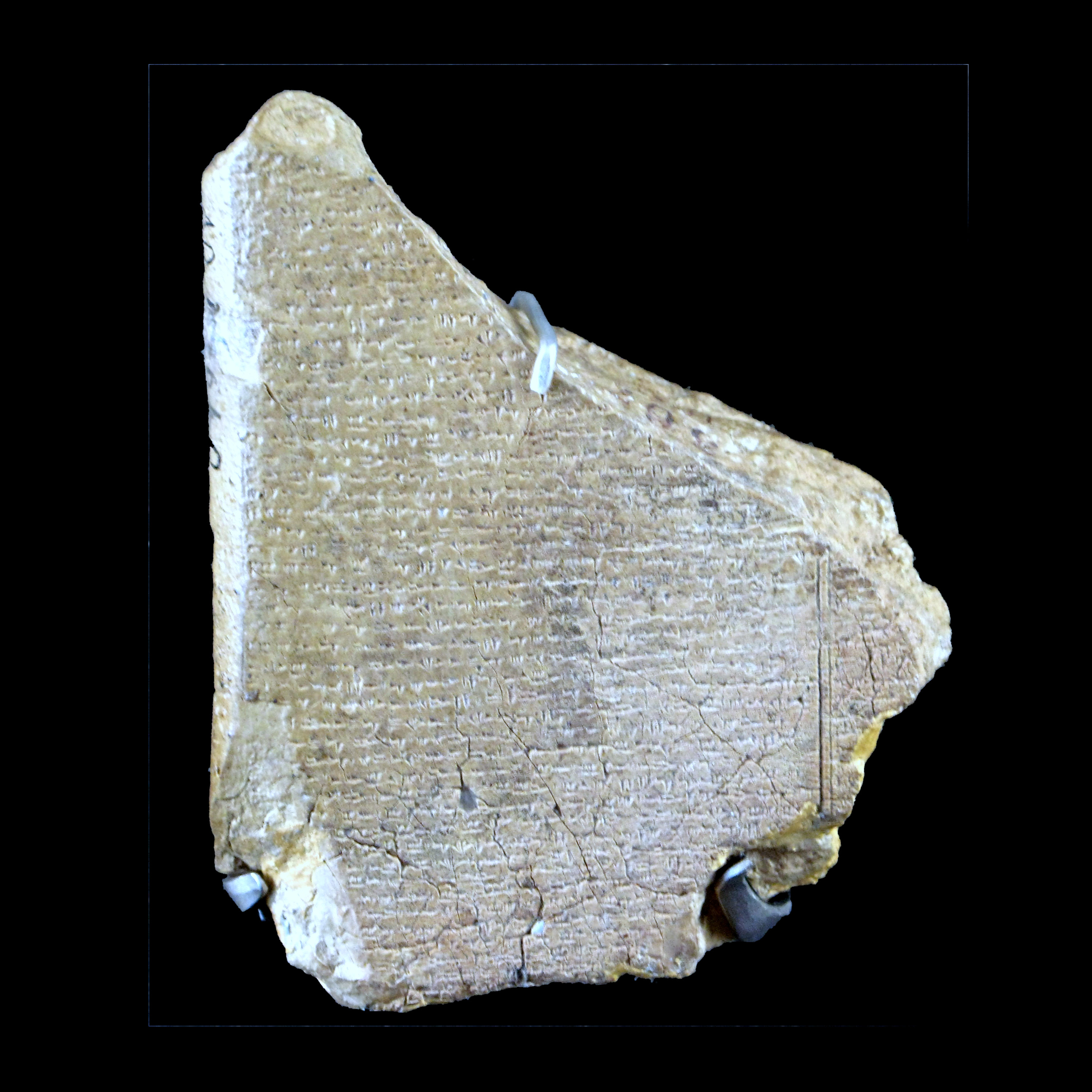 ArtistUnknownDescription Tablet of the Baal epic poem Alphabitic cuneiform writing, Ugarit language ca. 14th - 13th century BCE Ras Shamra (acropolis) Terra cotta I tell you, O prince Baal, I say to thee O, rider of clouds There is your enemy, O Baal, there is your enemy Thou shalt strike him. There is your adversary Thou shalt slay him. Thou shalt take back eternal kingship your eternal sovereignty Current location (Inventory)Louvre Museum Native nameMusée du LouvreLocationParisCoordinates48° 51′ 37″ N, 2° 20′ 15″ E Established1793Website control : Q19675 VIAF: 257711507 ISNI: 0000 0001 2260 177X ULAN: 500125189 LCCN: n80020283 NLA: 35912436 WorldCat Department of Oriental Antiquities Sully lower ground floor room B Display 12Accession numberAO 16640 Credit lineFouilles C. Schaeffer, 1931ReferencesLouvre.frSource/PhotographerRama Tablet of the Baal epic poem Alphabitic cuneiform writing, Ugarit language ca. 14th - 13th century BCE Ras Shamra (acropolis) Terra cotta I tell you, O prince Baal, I say to thee O, rider of clouds There is your enemy, O Baal, there is your enemy Thou shalt strike him. There is your adversary Thou shalt slay him. Thou shalt take back eternal kingship your eternal sovereignty